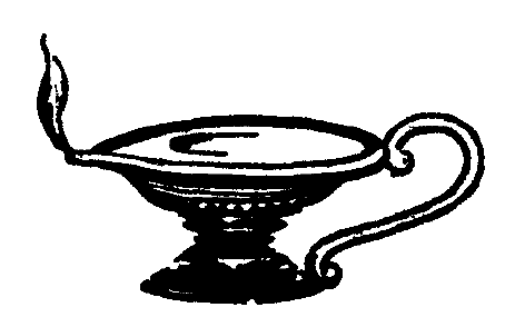 A simple drawing of an oil lamp – used as a symbol (in various variants) in Indian Elections.